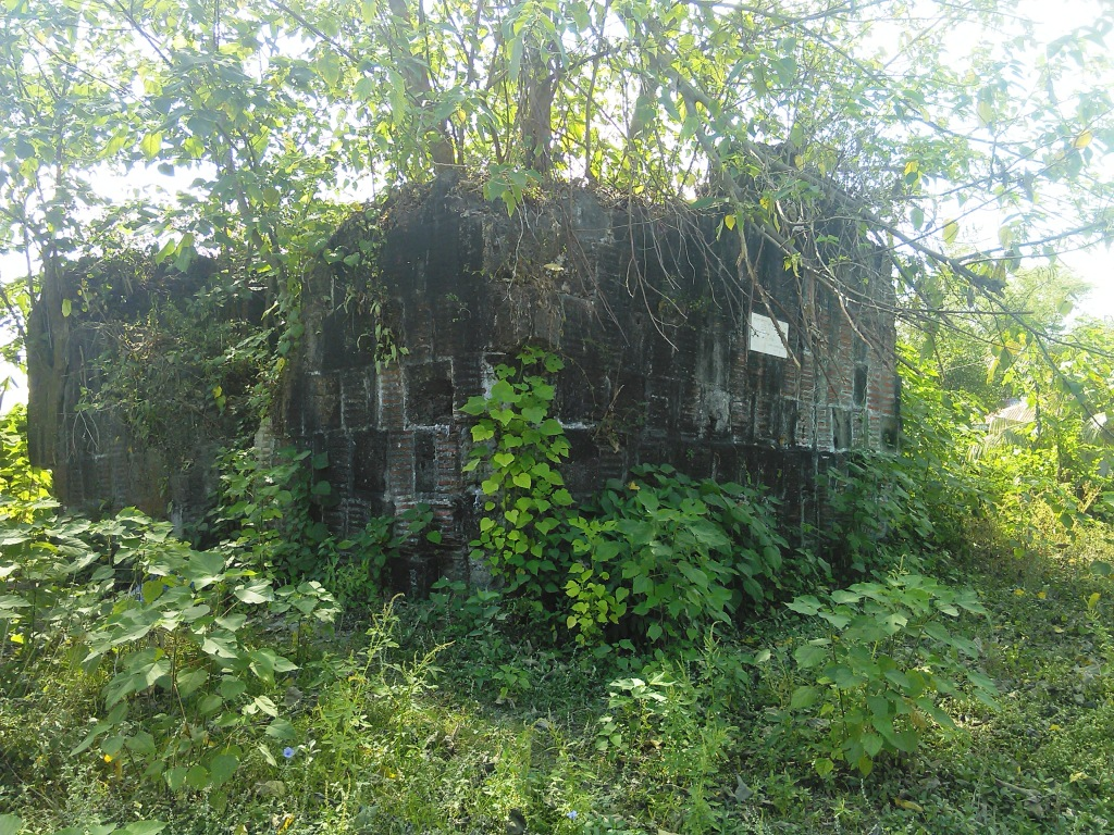 Ruins of the first church of Pila, Laguna. Currently in Brgy. Pagalangan, Victoria, Laguna